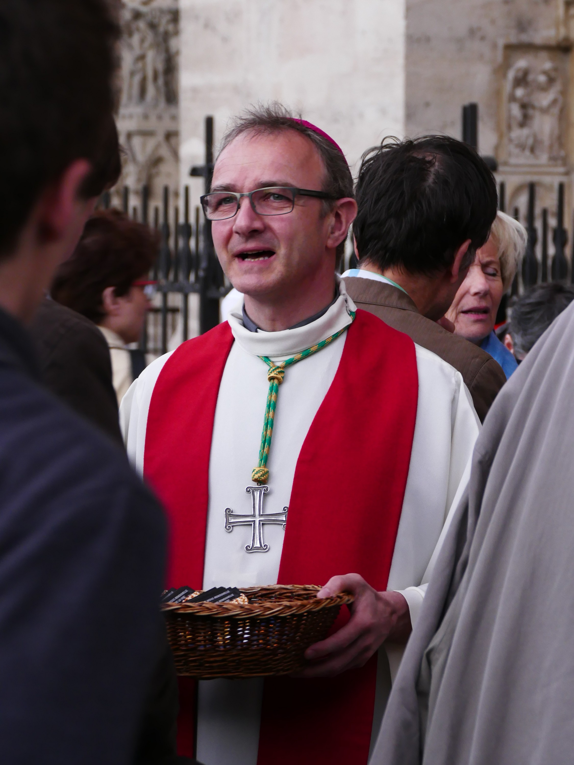 Mgr Thibault Verny, auxiliary bishop of Paris, after the Vigil for Life in Paris (Île-de-France, France).